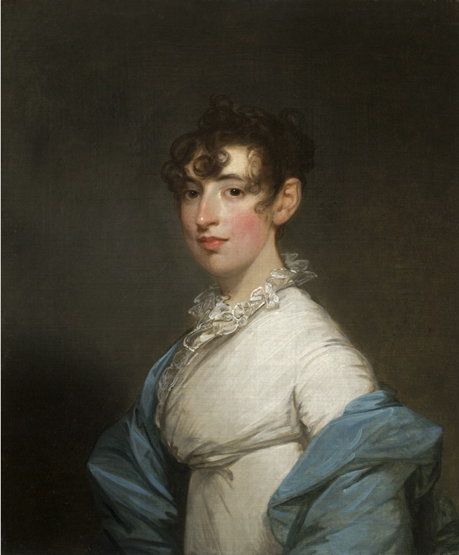 Mary Anna Sawyer was the daughter of Dr. Micajah Sawyer and Sybil (Farnham) Sawyer of Newburyport, Massachusetts. She was the second wife of Philip Jeremiah